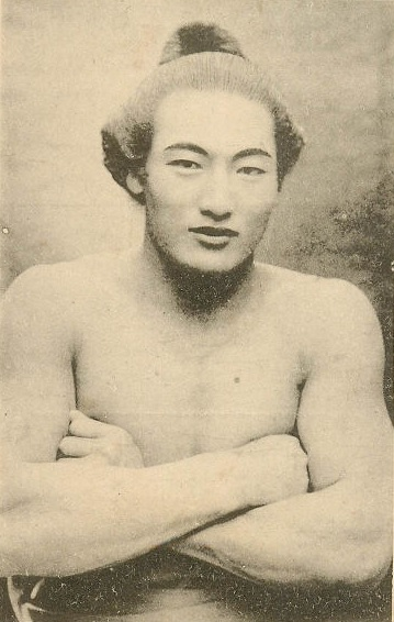 this picture was taken in his Kajinosuke period which was between 1915-1924 and well in the Public Domain range